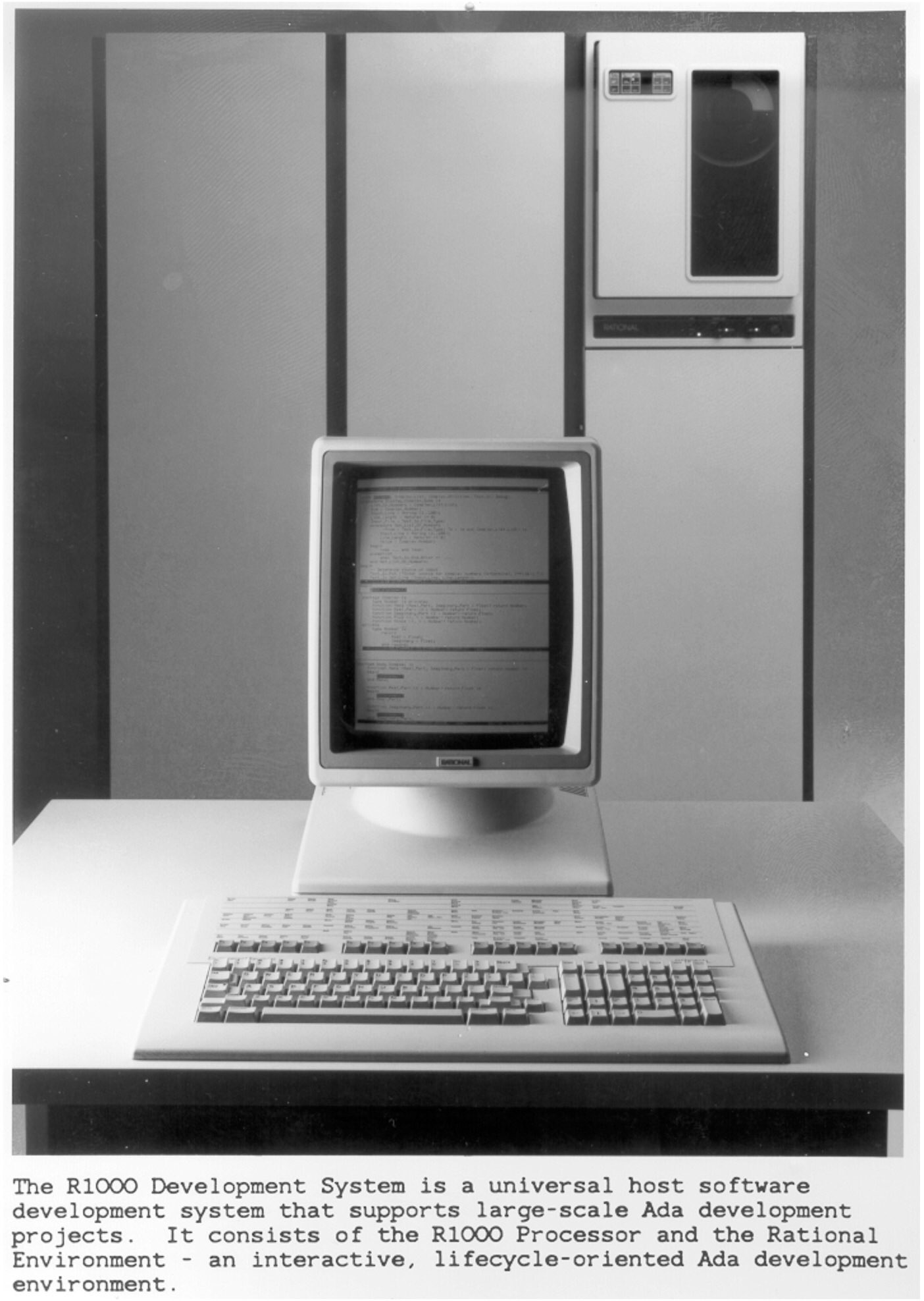 A picture of the Rational R1000 Development System.